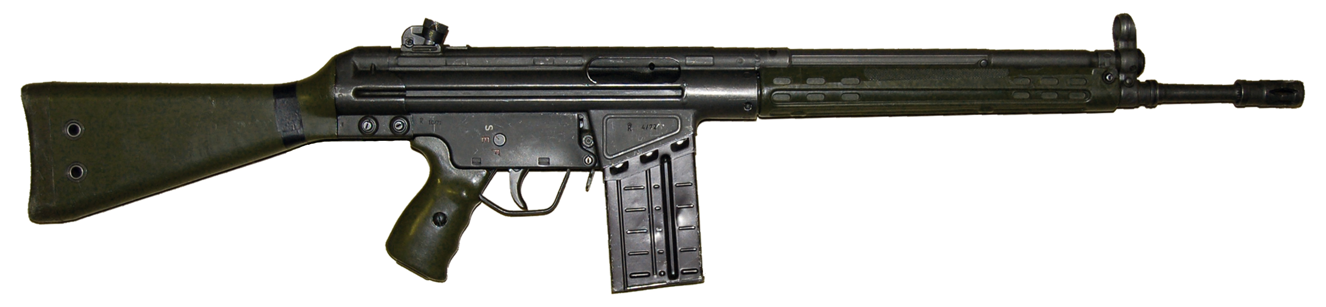 The Norwegian produced AG-3 7.62 mm assault rifle, right hand view. Removed background and did some adjustments.